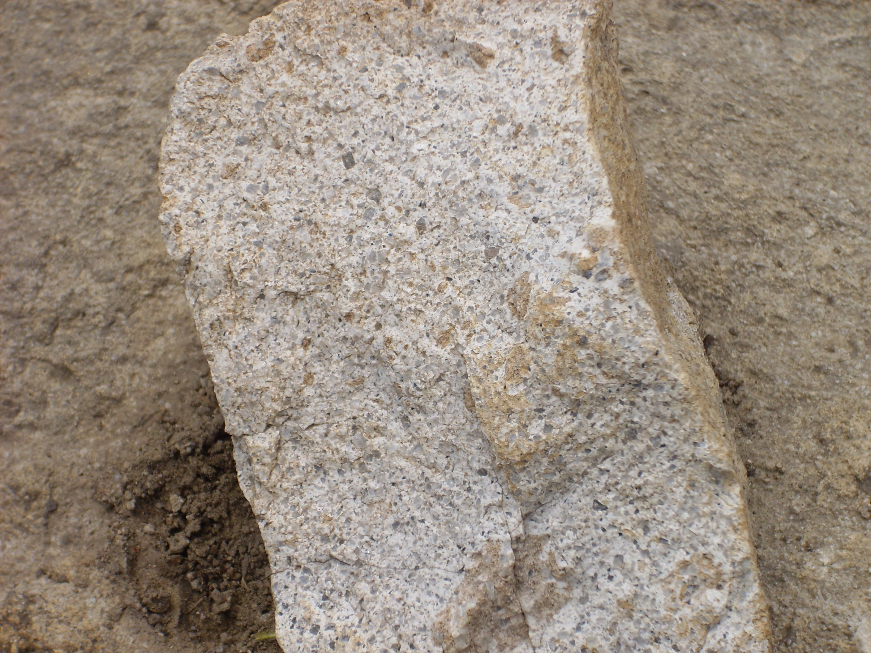 This is a fragment of Amalia Tuff from an outcropping near Petaca, New Mexico, USA. The fragment is about 5 cm in width. The Amalia Tuff was erupted from the Questa caldera around 26 million years ago, and the outcrop from which this fragment was taken is 45 km from the remnants of the caldera.